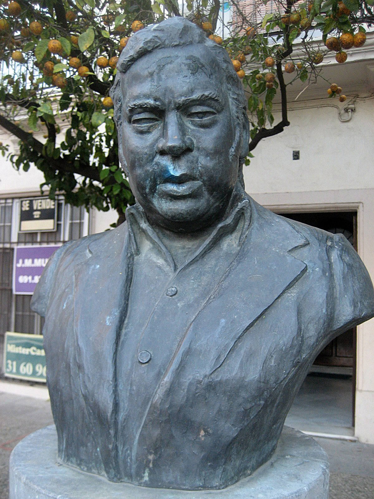 Busto Fernando Terremoto